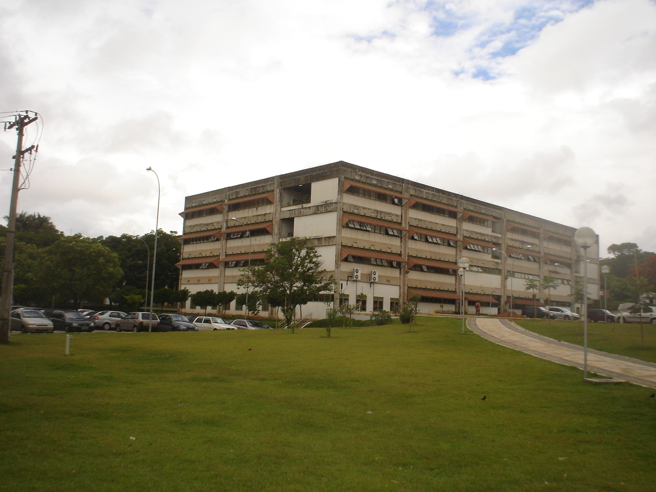 FAFICH Building at UFMG campus.